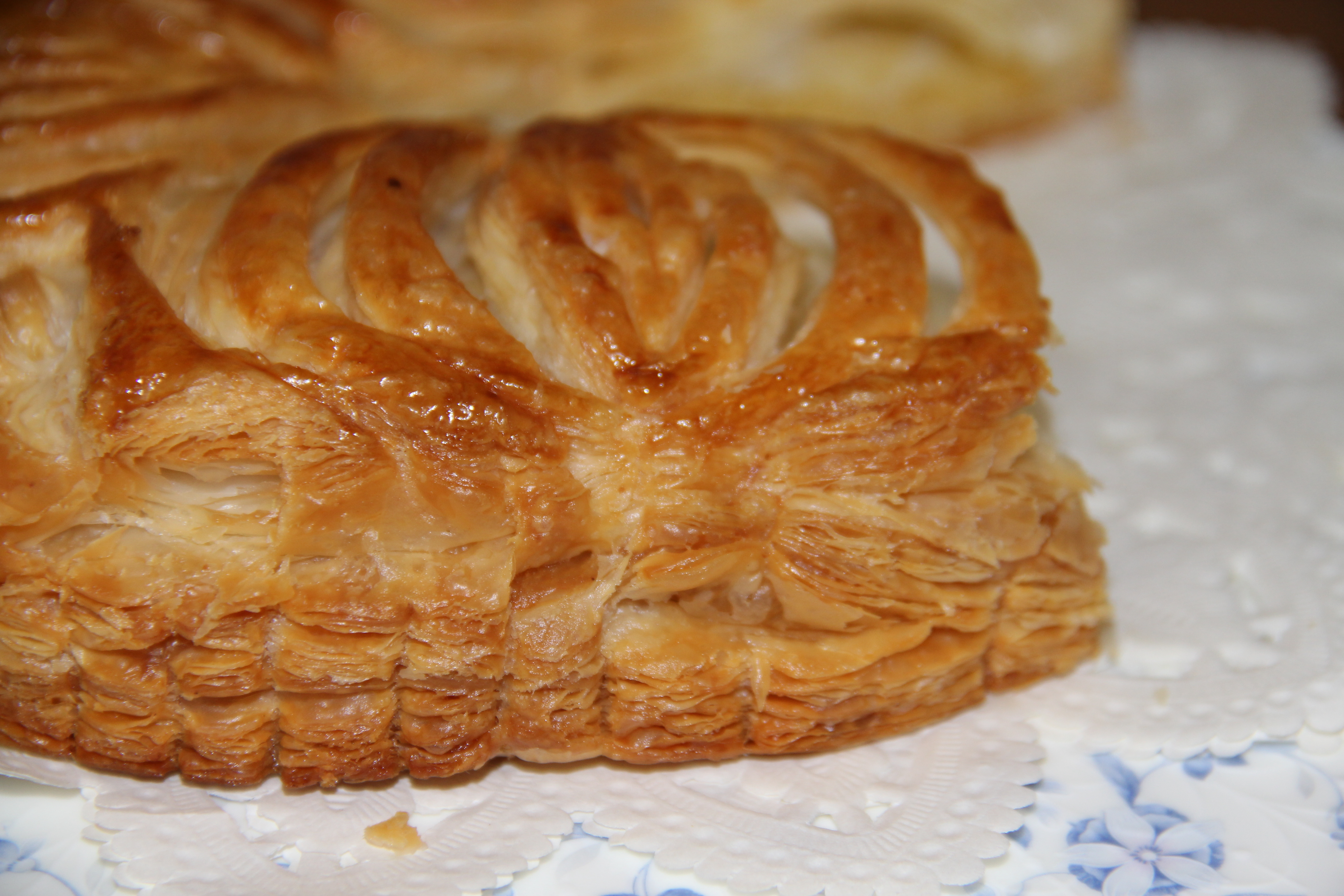 Making galette des rois or King cake